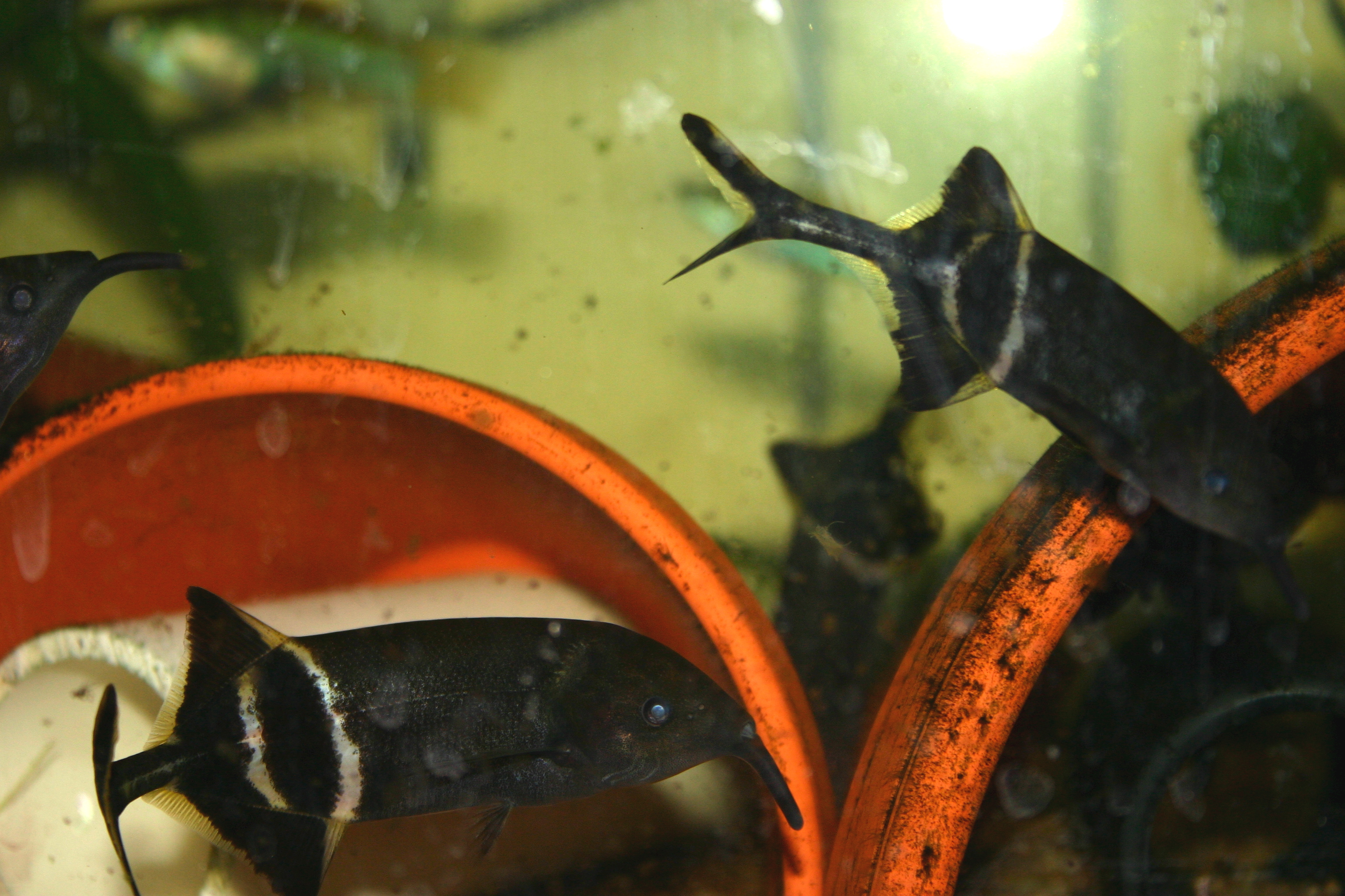 Gnathonemus petersii - Elephant nose fish - Tapirfish